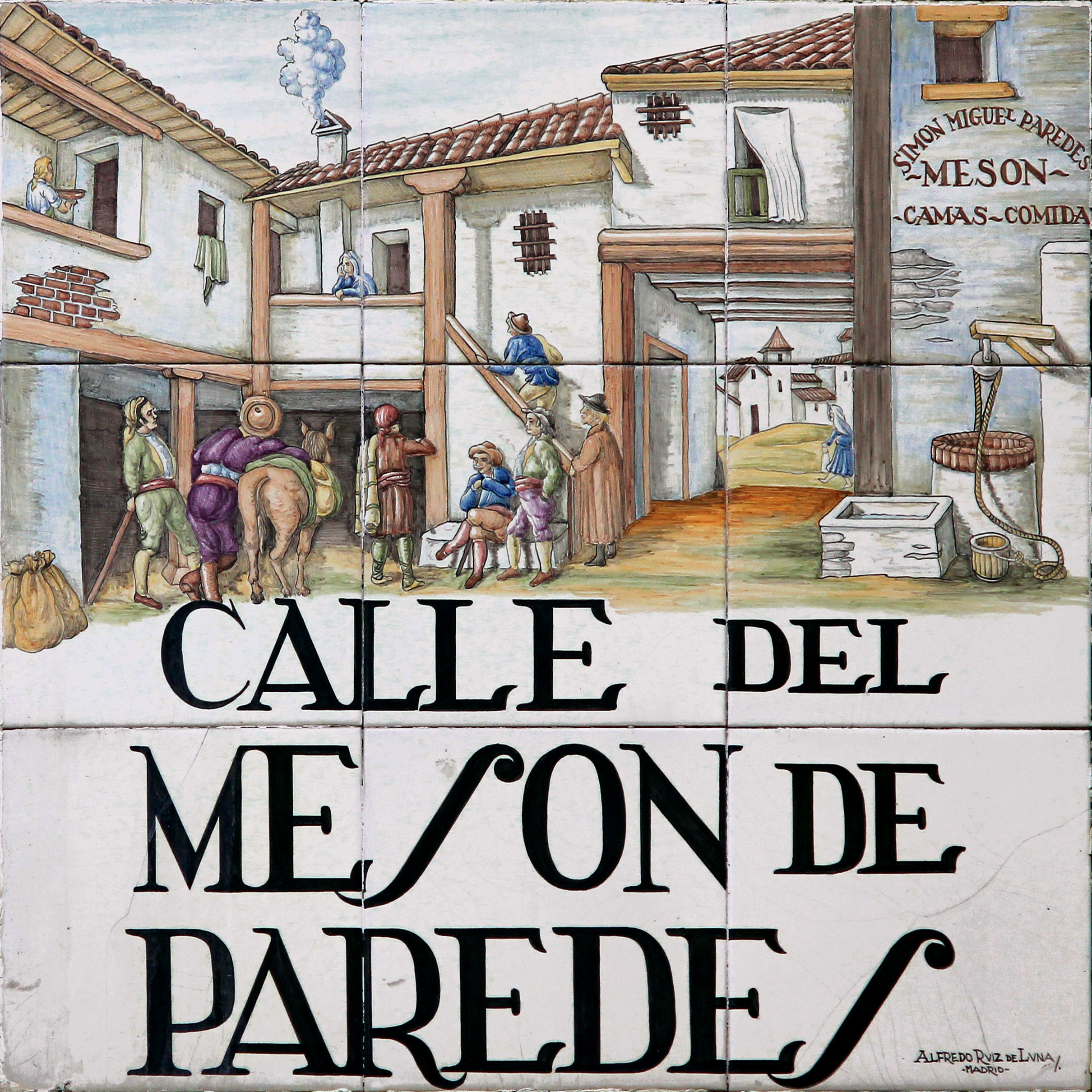 Sign of Calle del Mesón de Paredes (street) in Madrid (Spain).